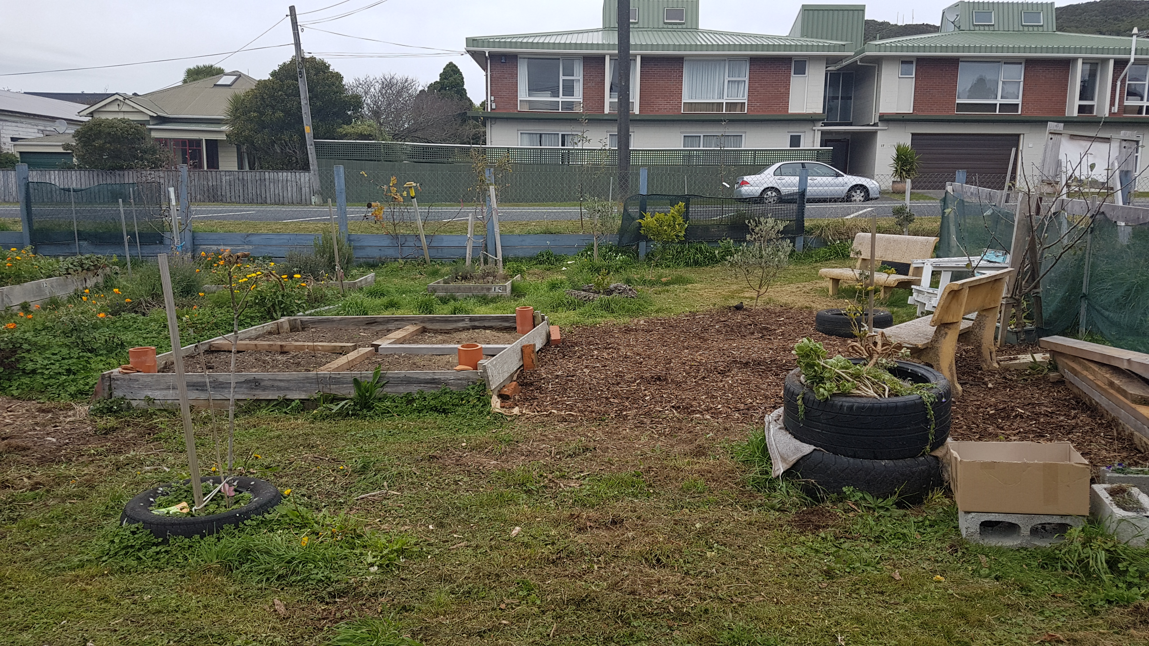 Photo from the Karori Community Garden in May 2020, Wellington, New Zealand.